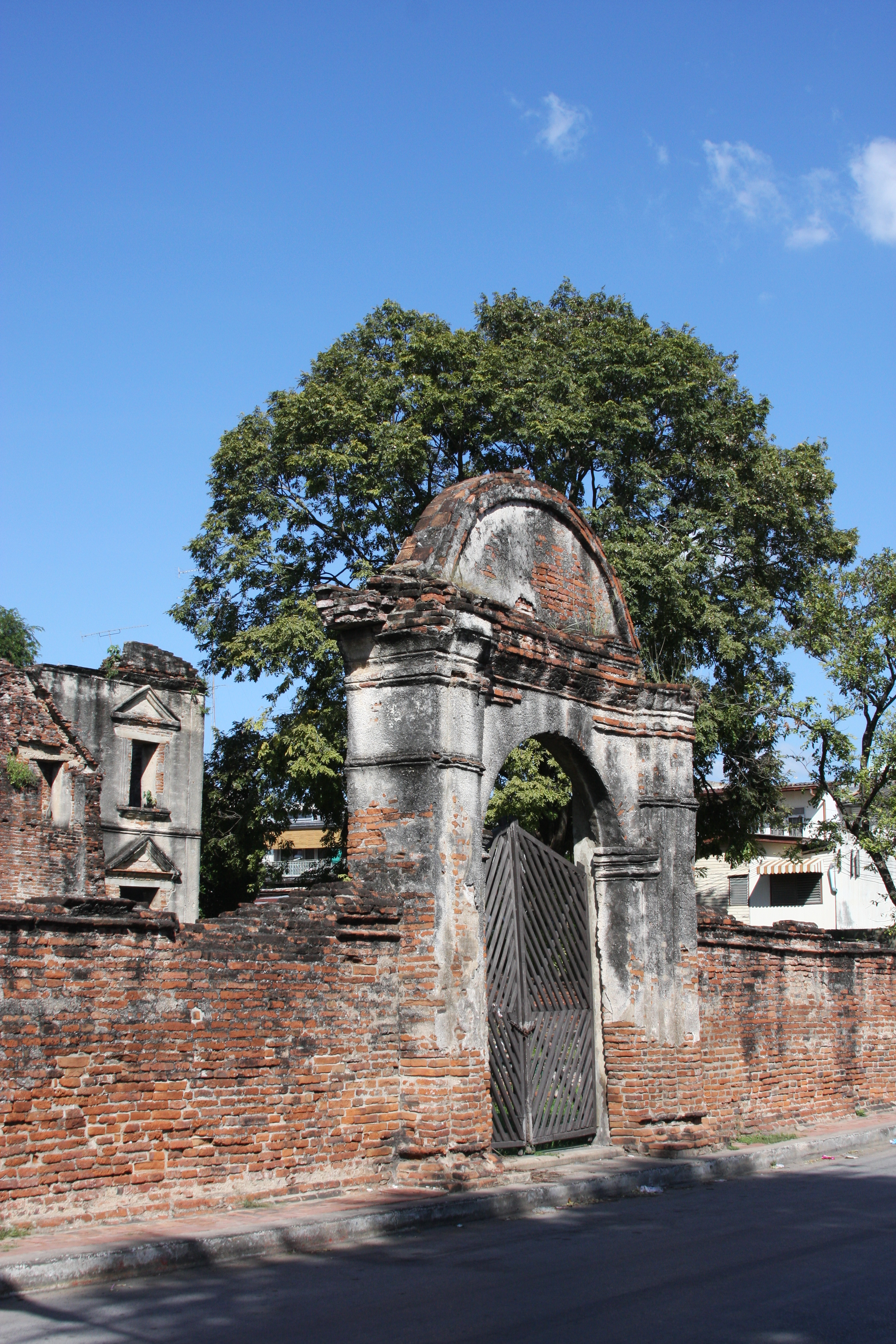 Chao Phraya Wichaen, residence of greek ambassador Constantine Phaulkon until 1688